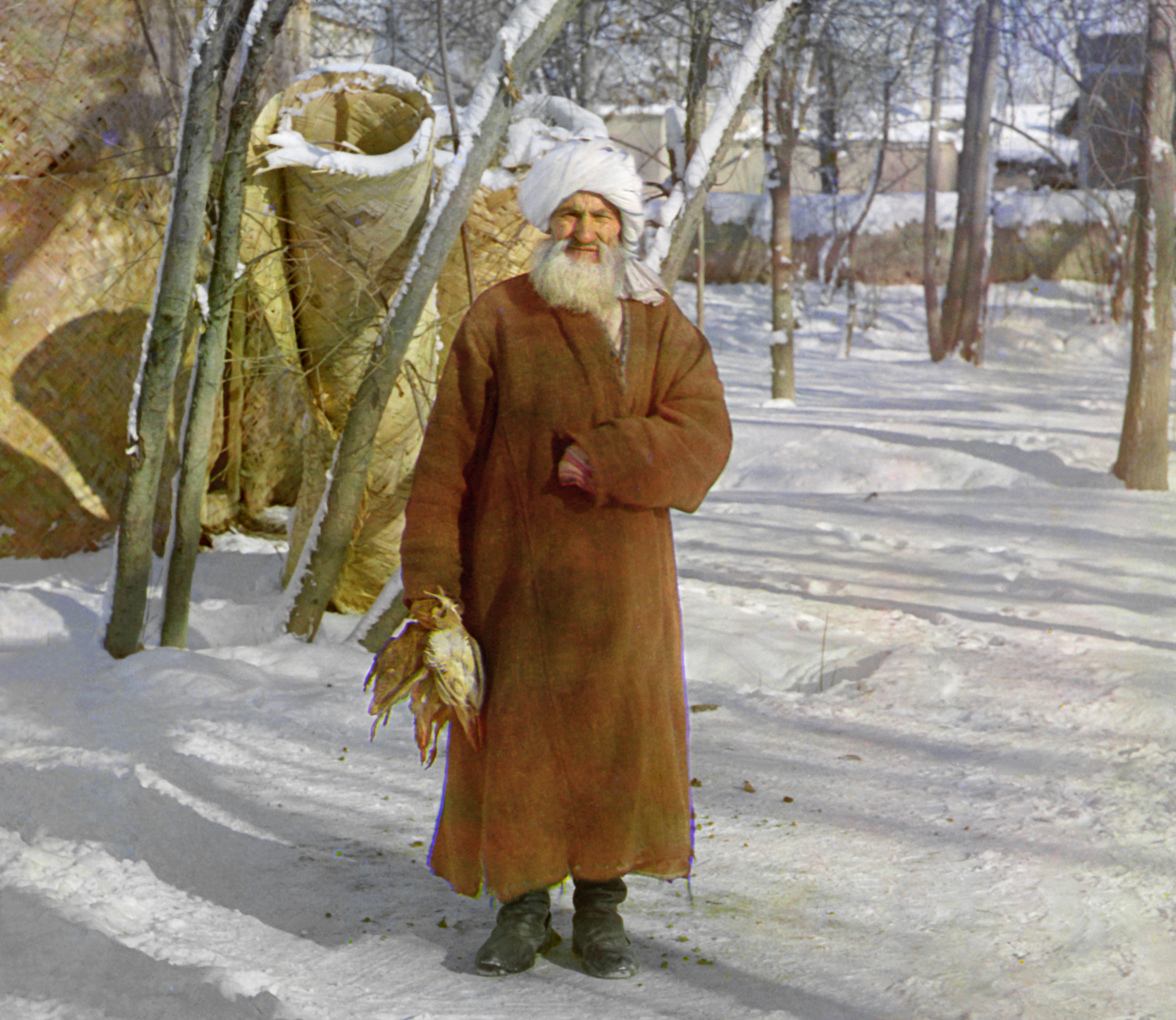 Elderly Sart man (Babaika), photographed near Samarkand, probably an ethnic Tajik.